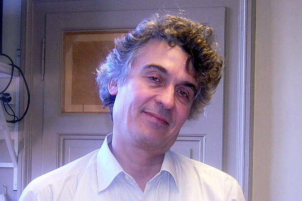 Fabio Pusterla in classe.